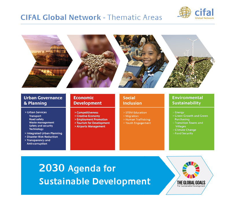 CIFAL Global Network Areas of Work